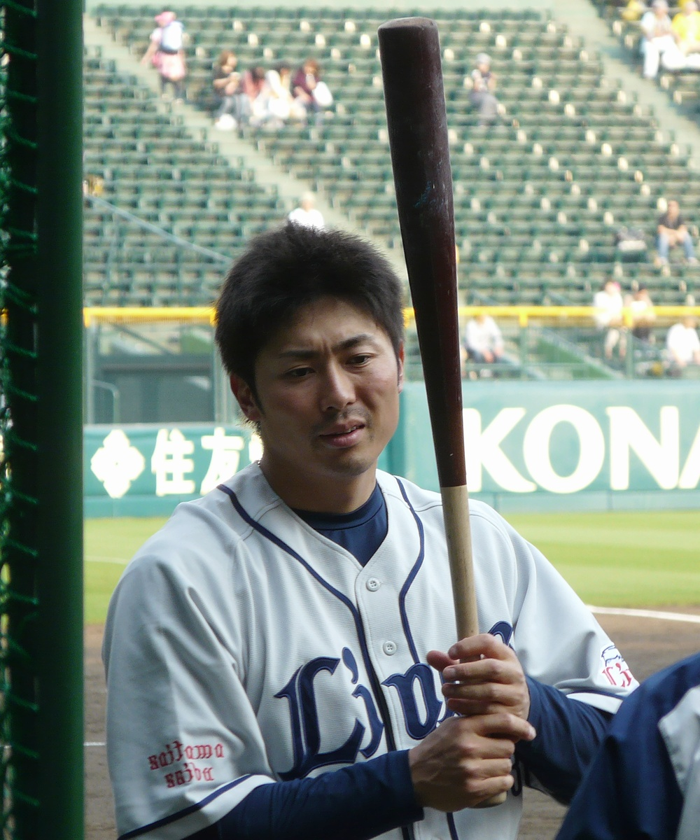 SL-Hidekazu-Hoshi20120528